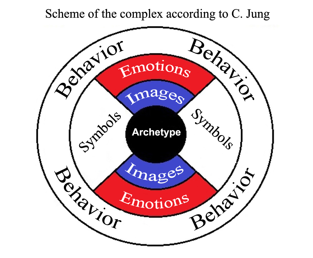 A model of the psychological complex according to Carl Jung. Based on File:Psychological complex according to Jung (ru).jpg.